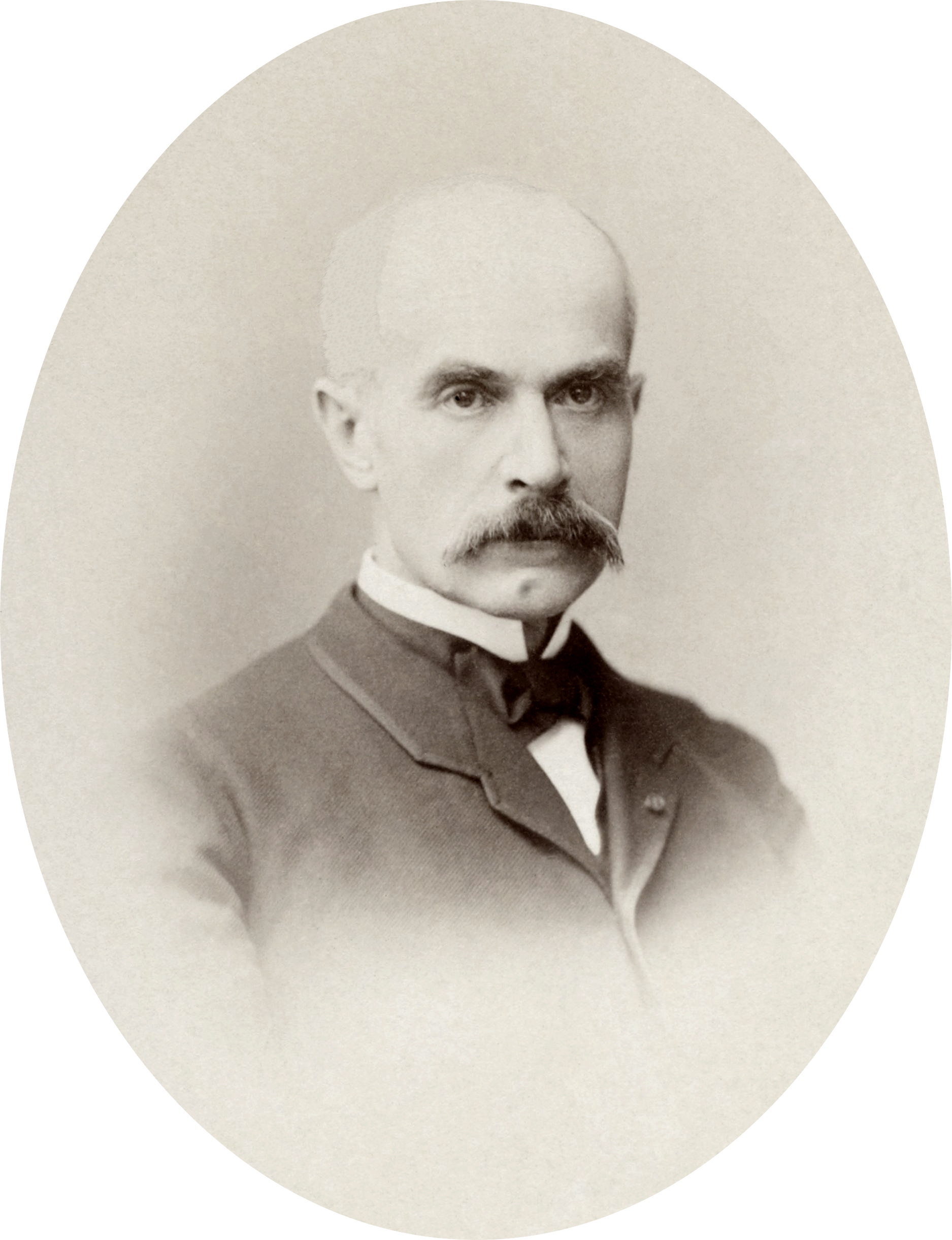 Charles Le Myre de Vilers (1833 - 1918), french explorator and colonial administrator.